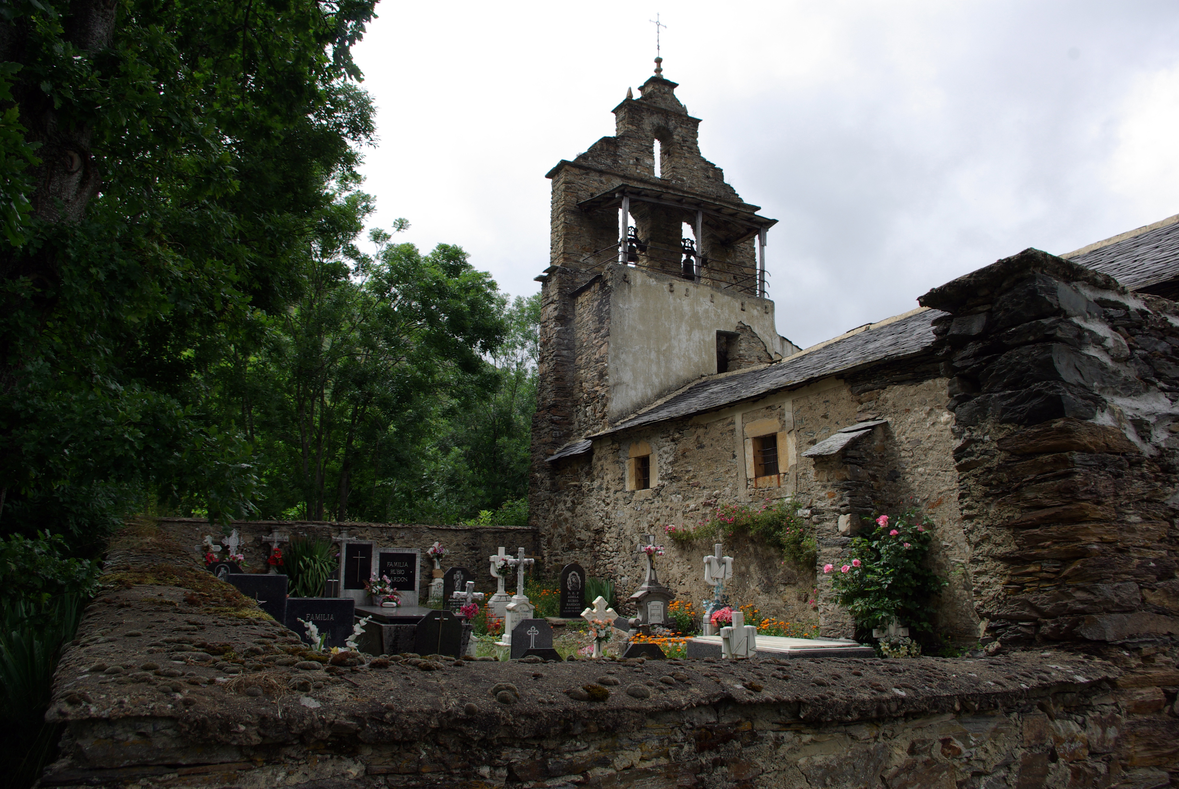 Church in Torrecillo (Murias de Paredes, León, Spain)